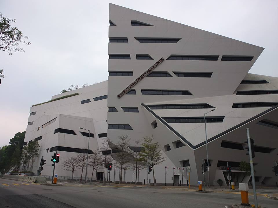 Exterior of the building